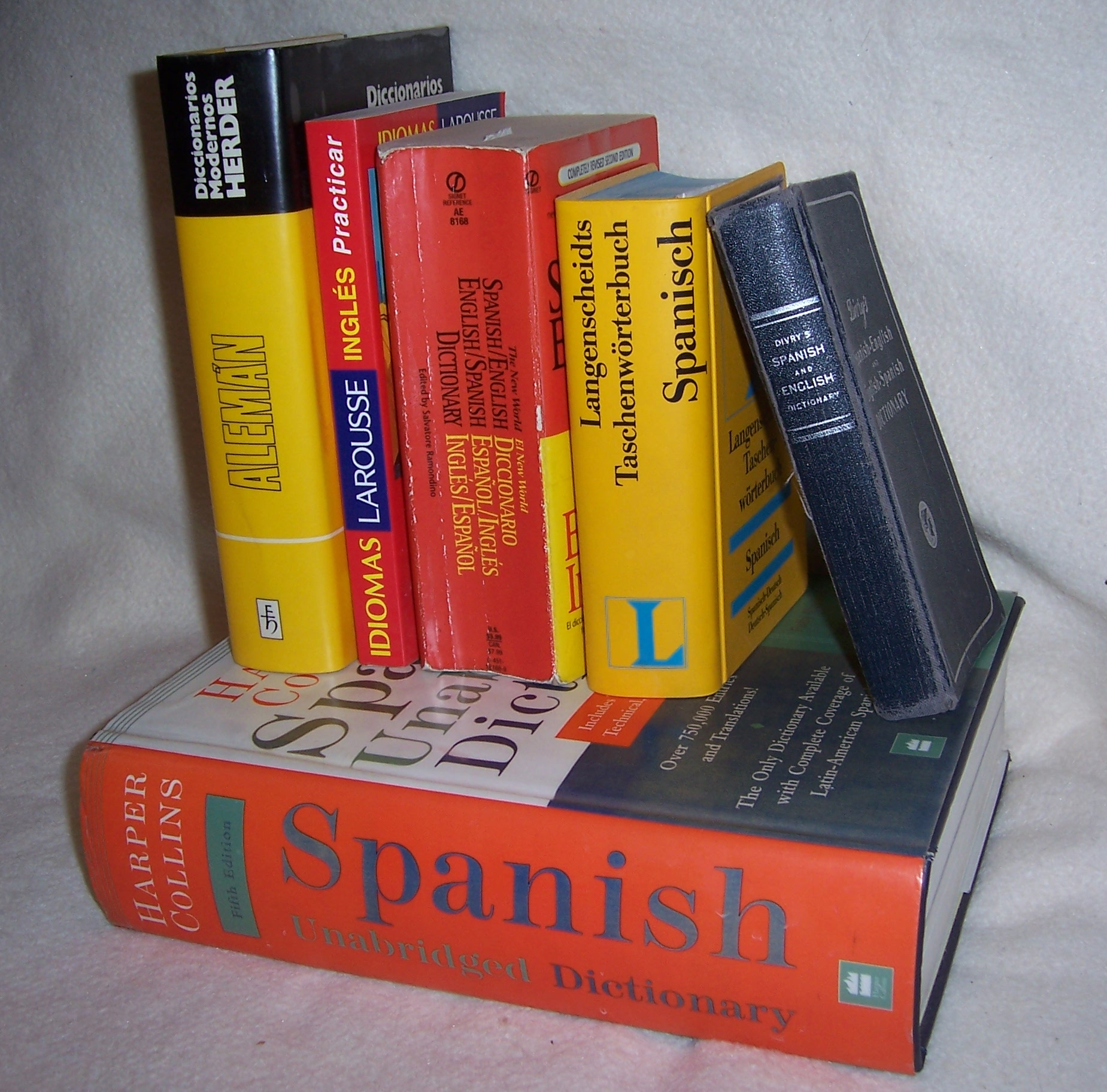 A quick shot of some of my bilingual dictionaries. I am the author of this image. LinguistAtLarge 19:26, 27 October 2006 (UTC)